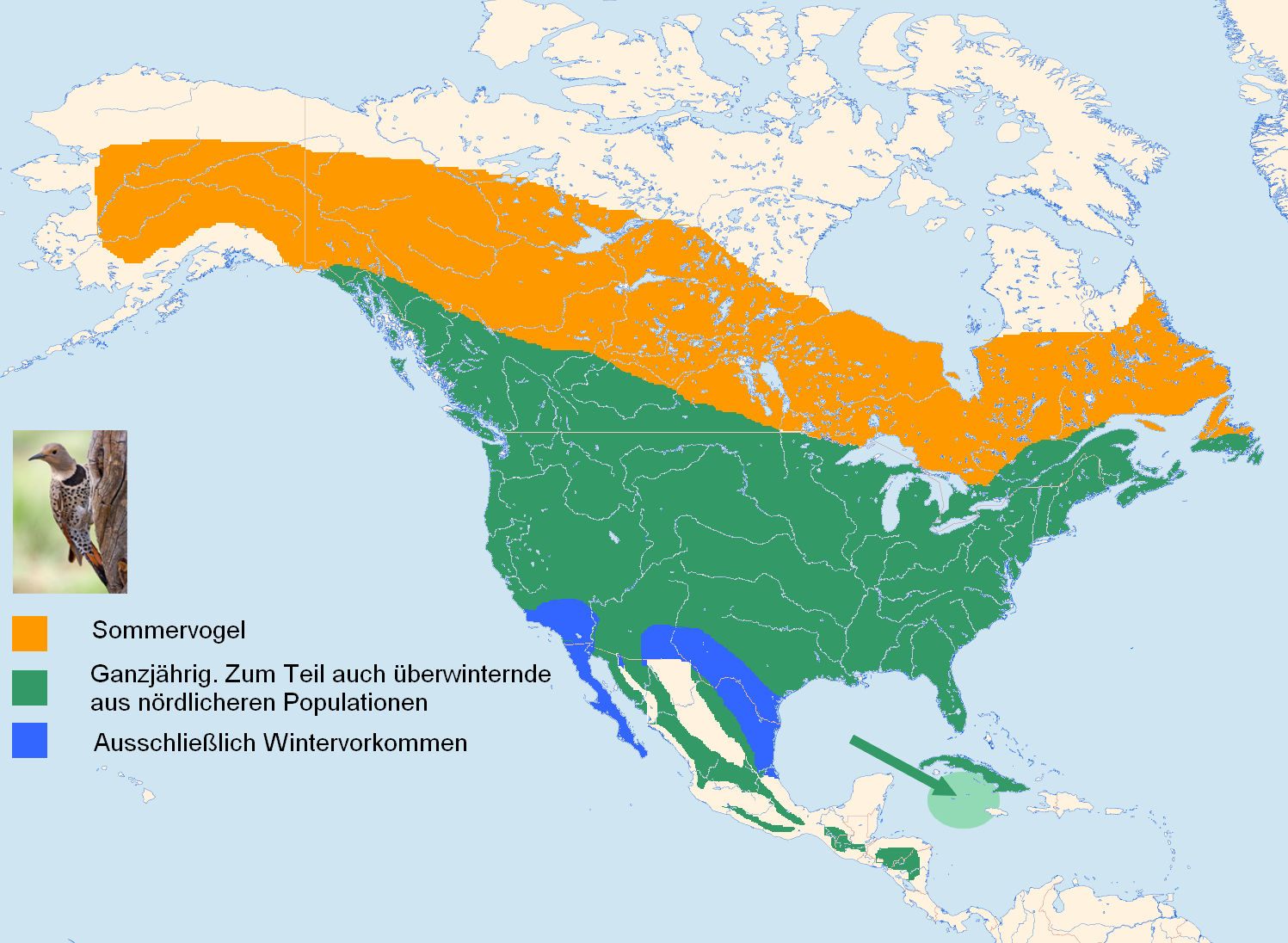 Range Map of Northern Flicker